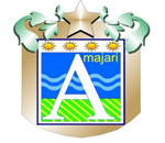 Coat of arms of the city of Amajari, Roraima, Brazil.